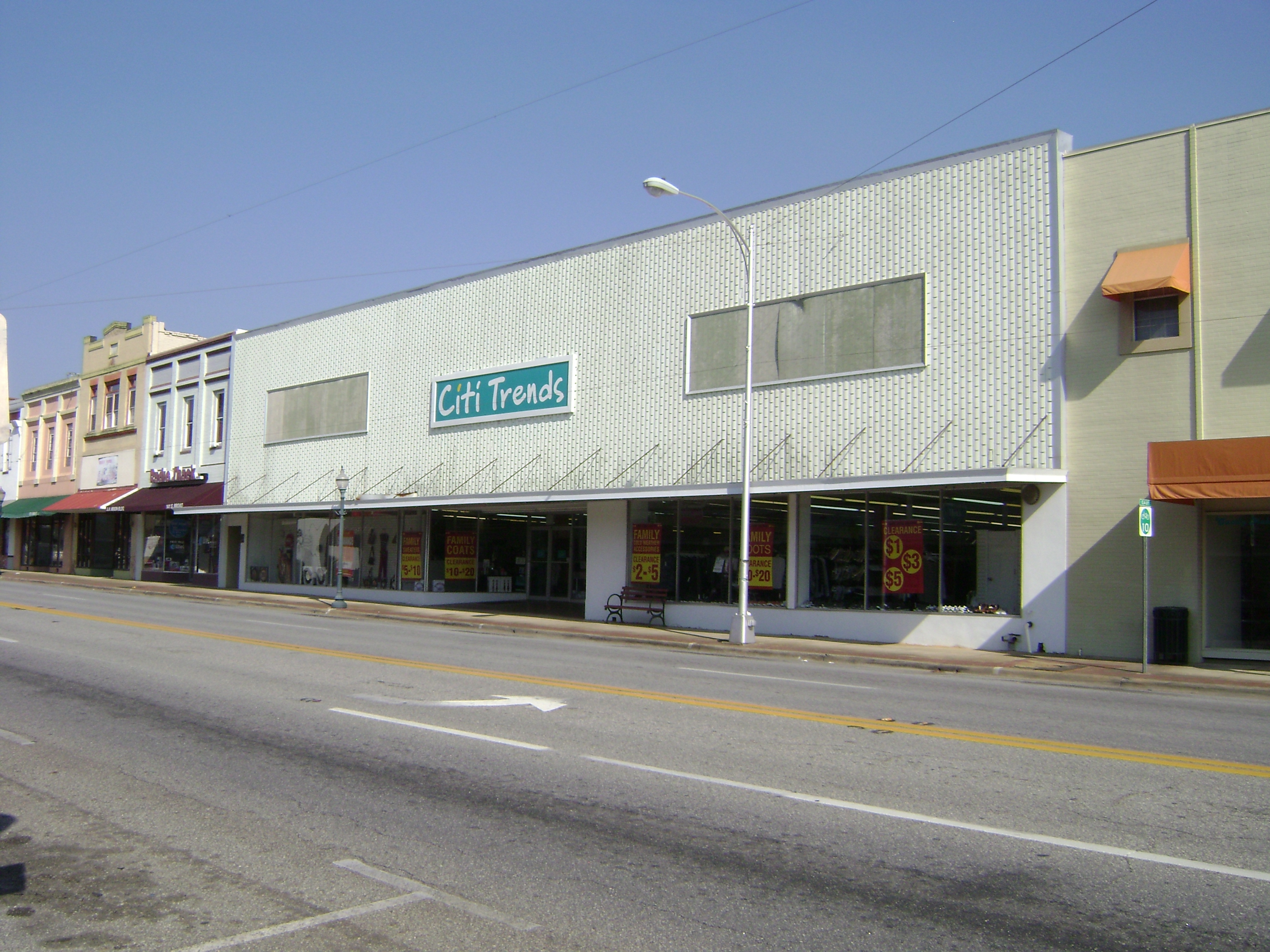 Citi Trends originally a TG&Y store, 149 S. Broad St., Cairo, Grady County, Georgia